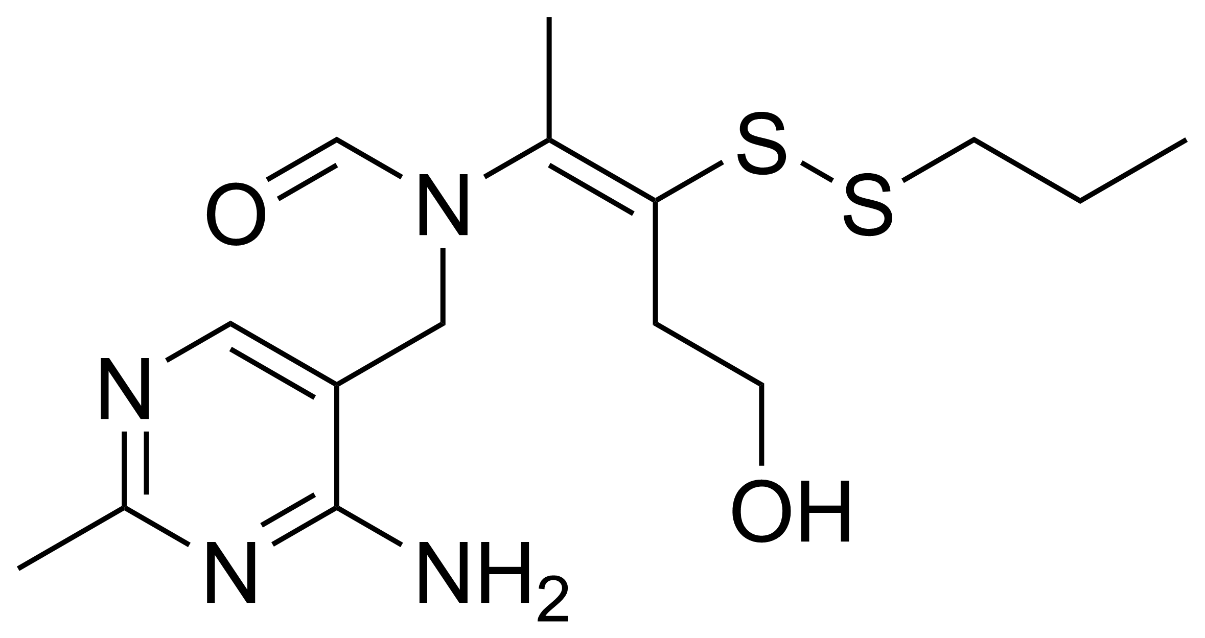 Chemical structure of Prosultiamine